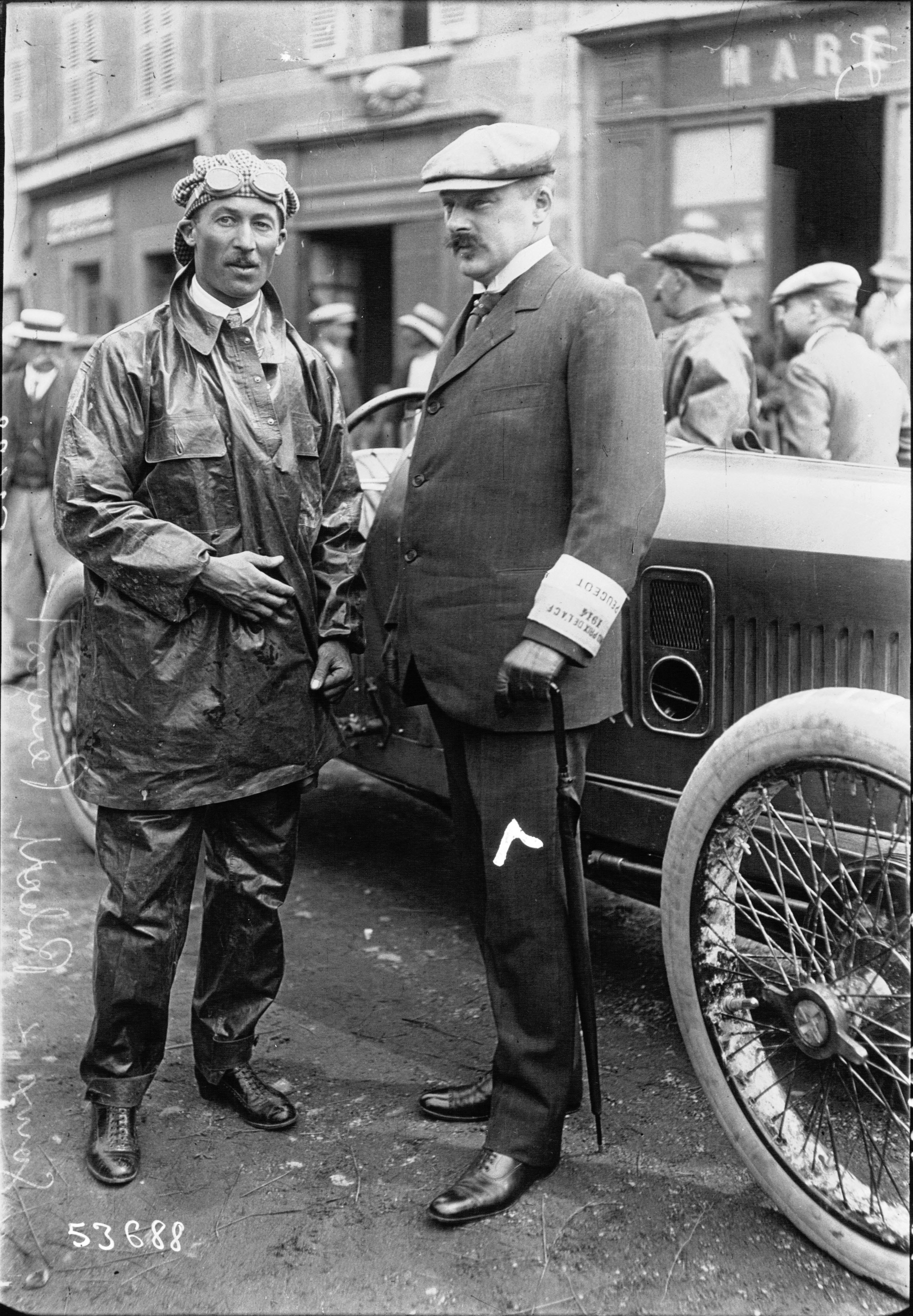 Jules Goux and Robert Peugeot at the 1914 French Grand Prix